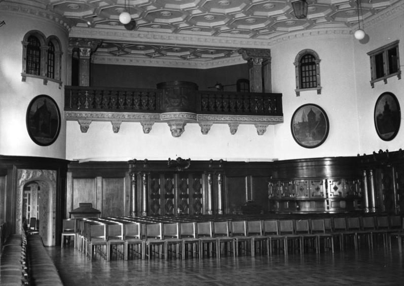 banqueting hall in the new section of Bremen town hall, from World War II to the 1990s with simple candles, from 1946 to 1966 assembling hall of Bremen state parliament